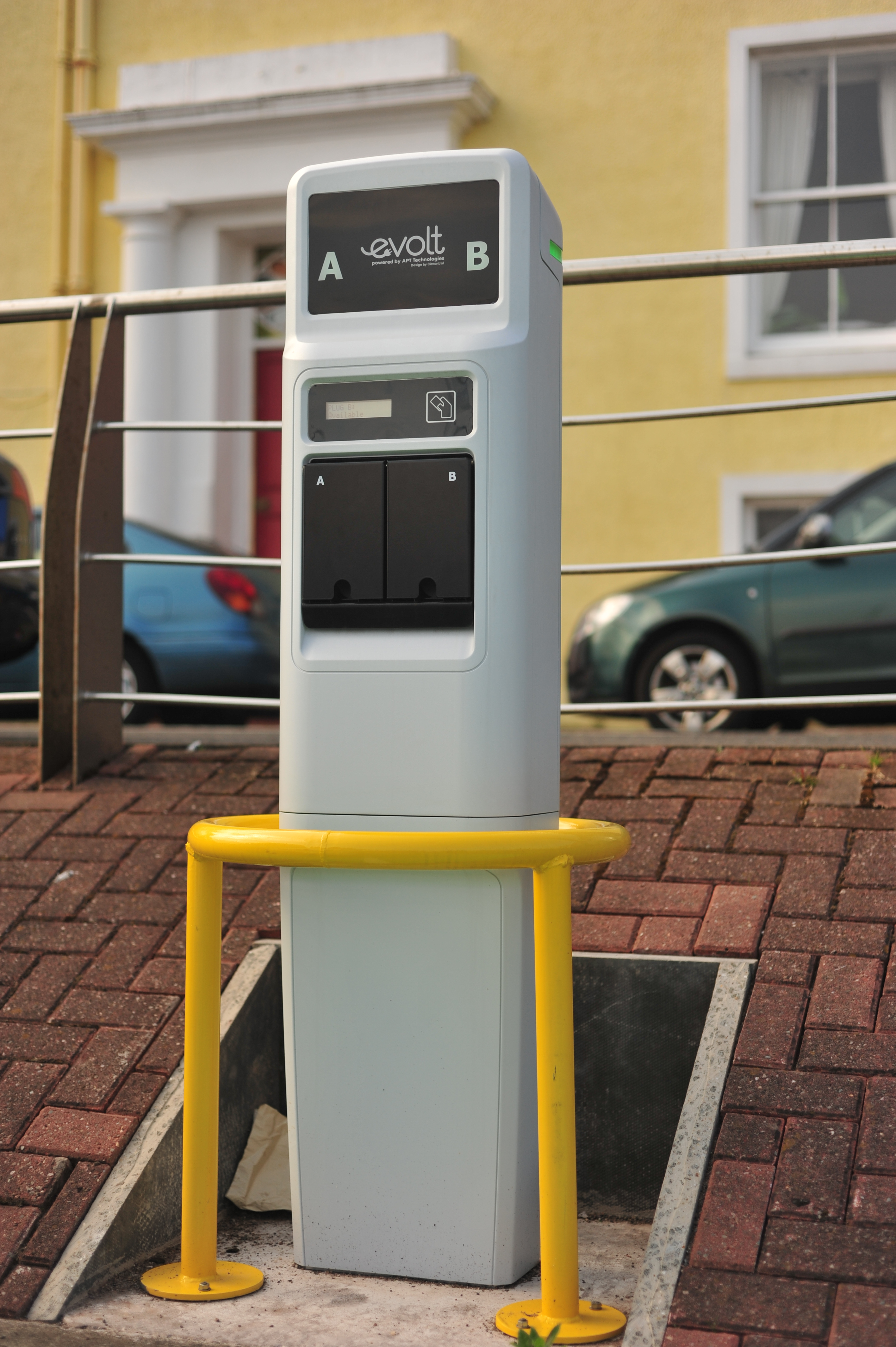 evolt electric vehicle charging point, recently installed at Arbroath Harbour.